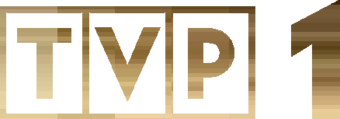 TVP S.A.